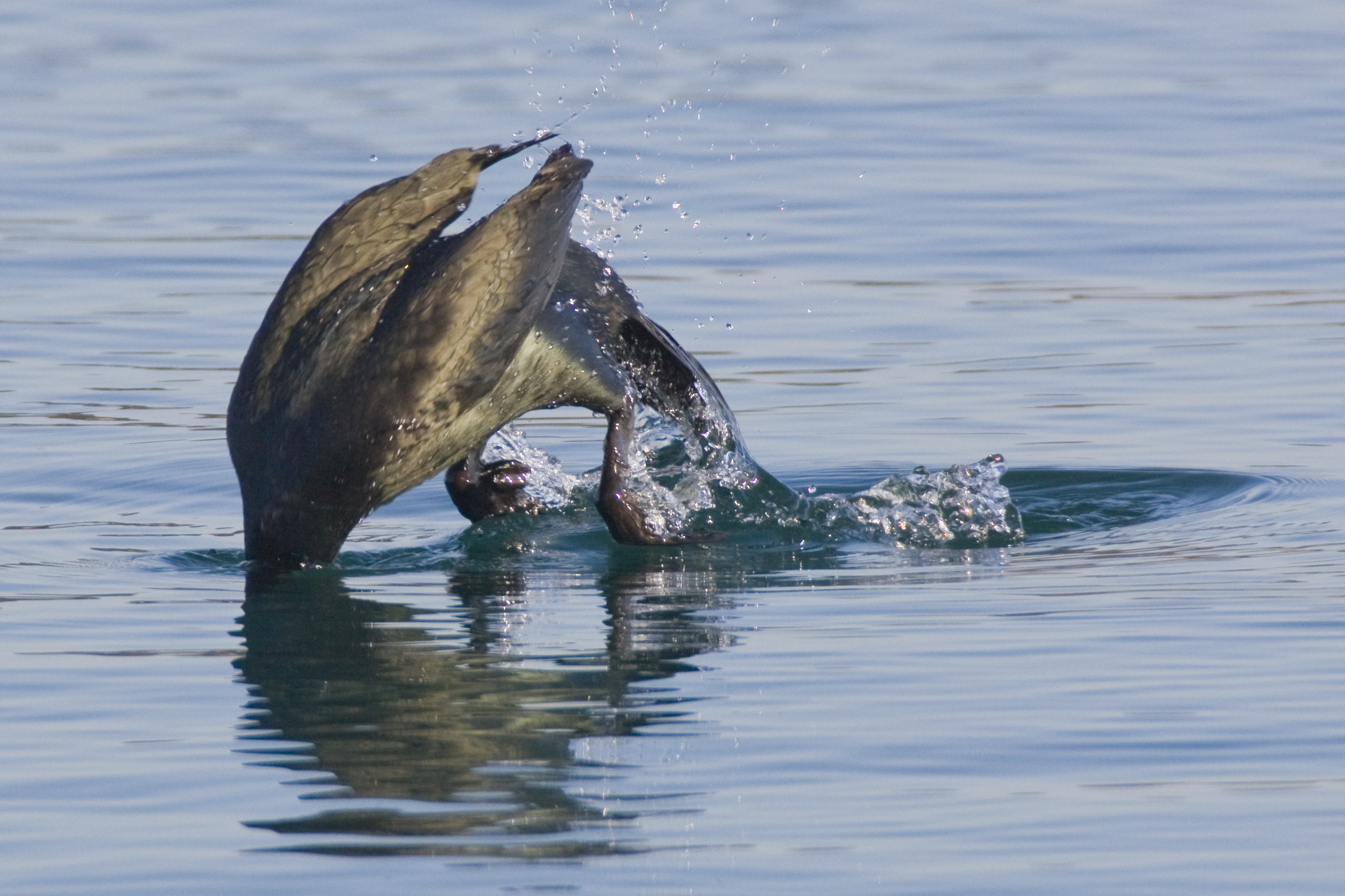 Cormorant diving for food in Morro Bay, CA 14dec2007 Friday 14 Dec. 2007 - Photo by Mike Baird, Canon 1D Mark III with 600mm IS lens w/ 2X II TE and polarizer